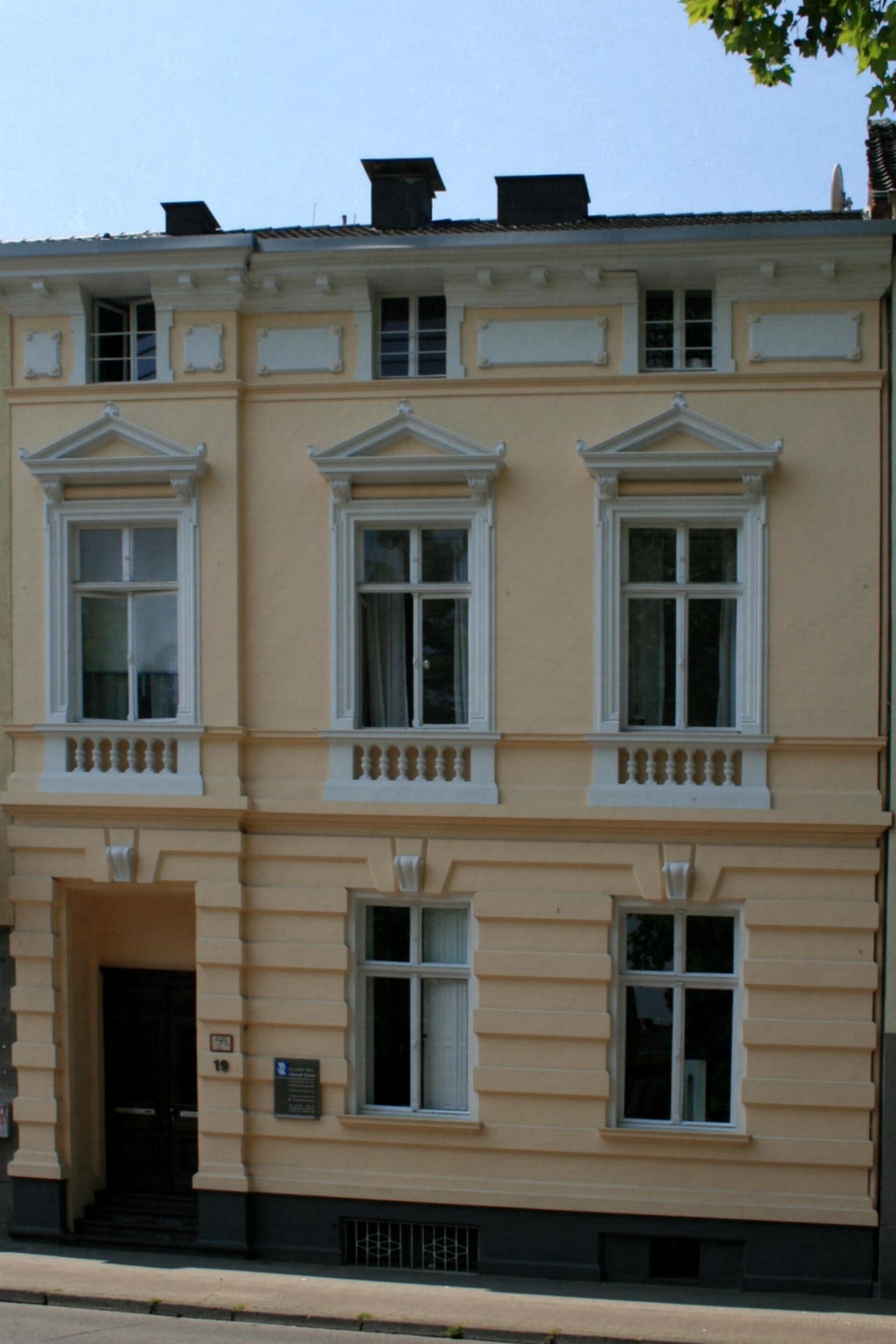 Cultural heritage monument No. B 079 in Mönchengladbach